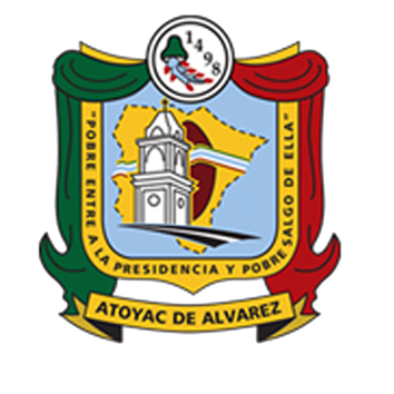 This is the official seal of Atoyac de Alvarez County, it was created in 1991 by painter José Hernández Mesa